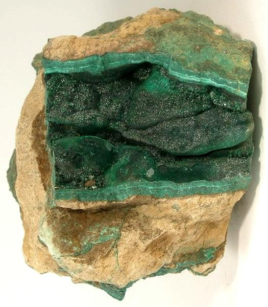 Malachite Locality: Bwana M'Kubwa Mine (Bwana M'Kubina Mine), Ndola, Copperbelt Province, Zambia (Locality at ) Size: 10.9 x 8.4 x 6.2 cm. A rare, old-time piece from a very much less well-known locale in Zambia - the Bwana M’Kubwa Mine. This classic, fine, cabinet specimen has two vugs filled with banded, botryoidal to elongated malachite formations. The open pit copper mine started before WWI and closed in 1984. This specimen was collected by Sam Gordon on the Fourth Vaux-Academy Expedition in 1929-30 for the Philadelphia Academy of Sciences. This is the same expedition, where Sam Gordon found the incredible azurite pocket at Tsumeb. Comes with the Philadelphia Academy label. Ex. Philadelphia Academy of Sciences Collection.